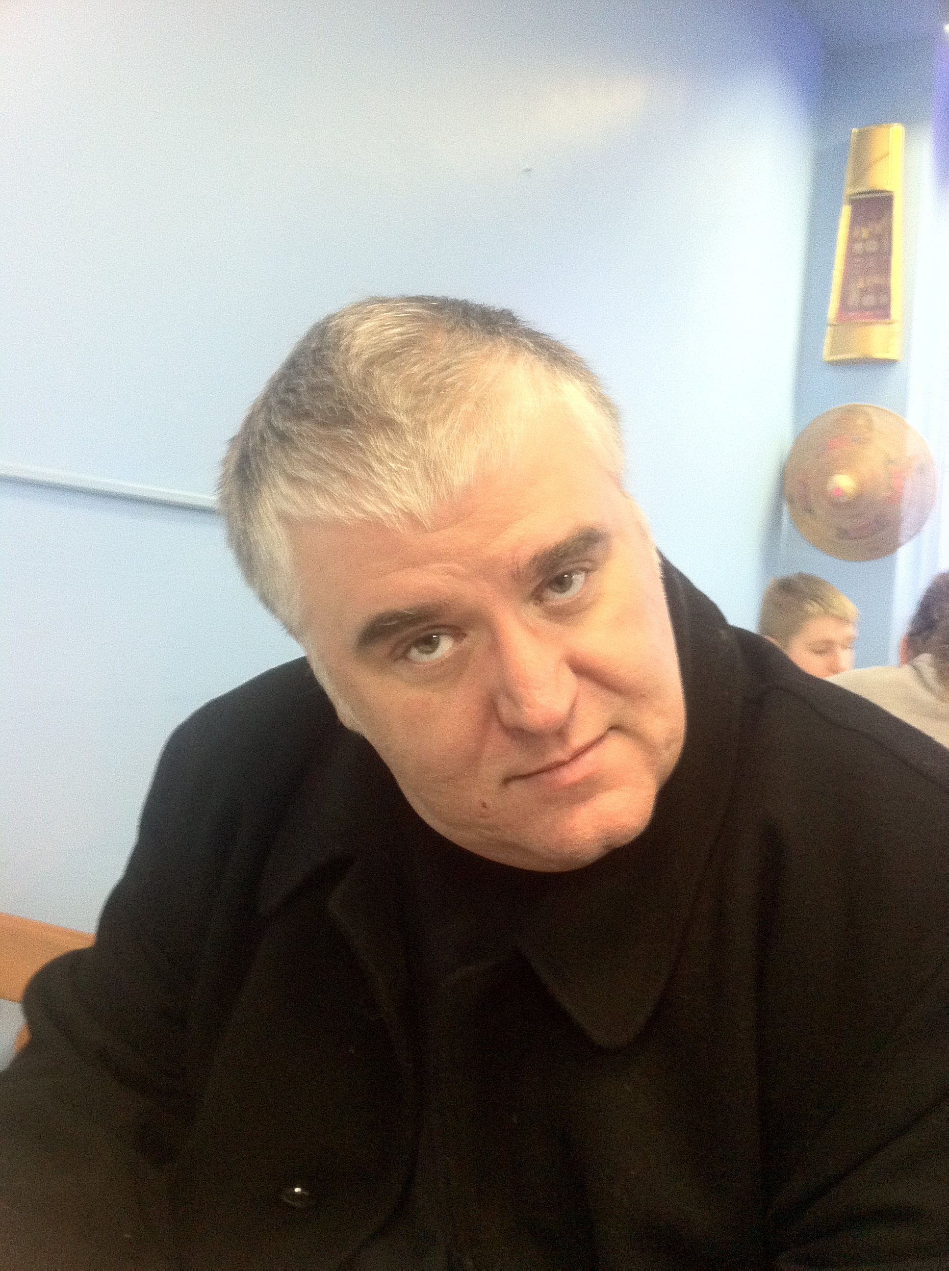 Author and Web publisher Joey Manley in 2011.